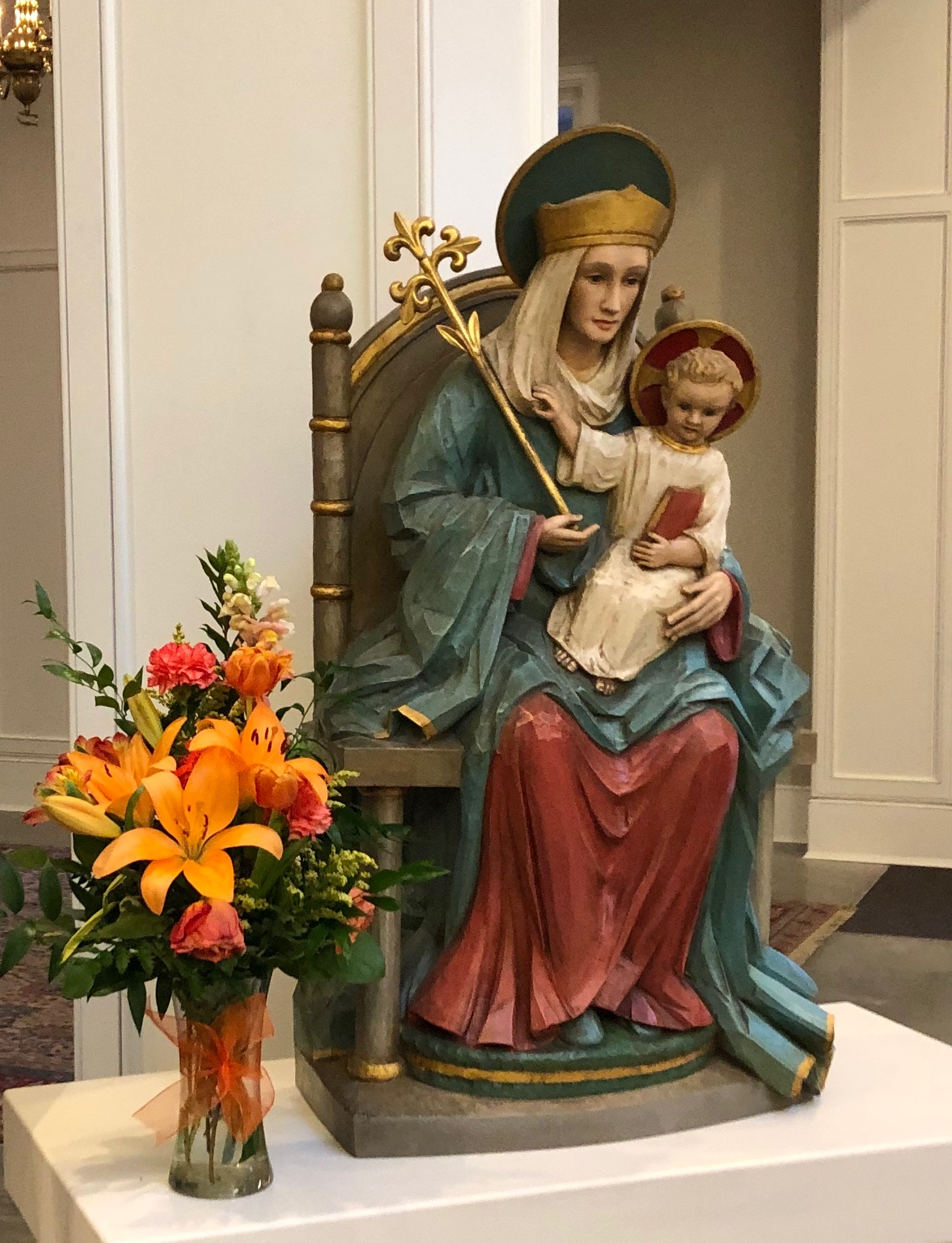 Statue of Our Lady of Walsingham on display in Saint Bede Catholic Church in February 2020 to celebrate 78 years since the dedication of the parish to her. The statue, usually within the National Shrine of Our Lady of Walsingham, was removed during renovations earlier that year.